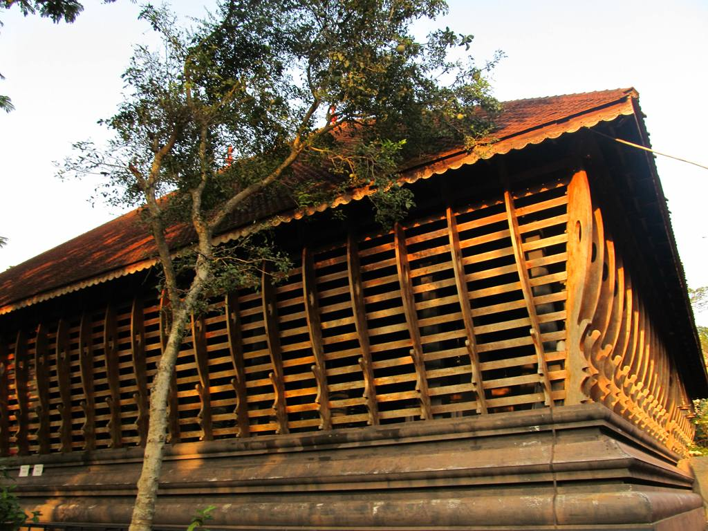 Vyloppilli Samskrithi Bhavan, situated in Thiruvananthapuram is a Multi Purpose Cultural Complex (MPCC) functioning as a cultural institution under the Department of Culture, Government of Kerala. Founded as a research, documentation, performance and preservation center of cultural traditions and art forms of Kerala, this traditional building houses the personal belongings of the great Malayalam poet, the late Vyloppilly Sreedhara Menon. Address Vailoppilly Samskriti Bhavan Multi Purpose Cultural Complex, Department of Culture, Government of Kerala Thiruvananthapuram Kerala, India Tel: +91 471 2311842, 2319127 (O) Website